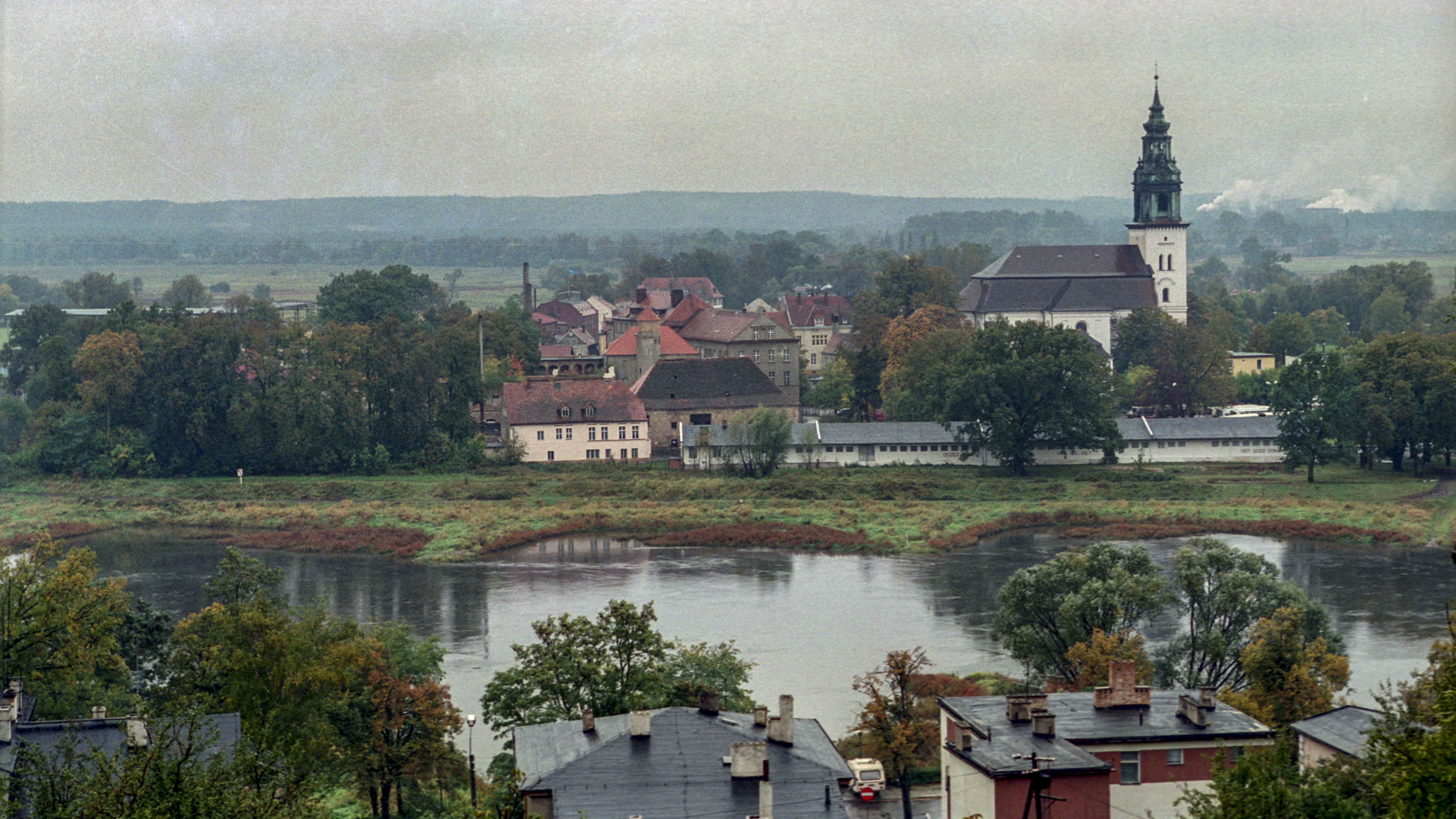 Poland, Krosno Castle